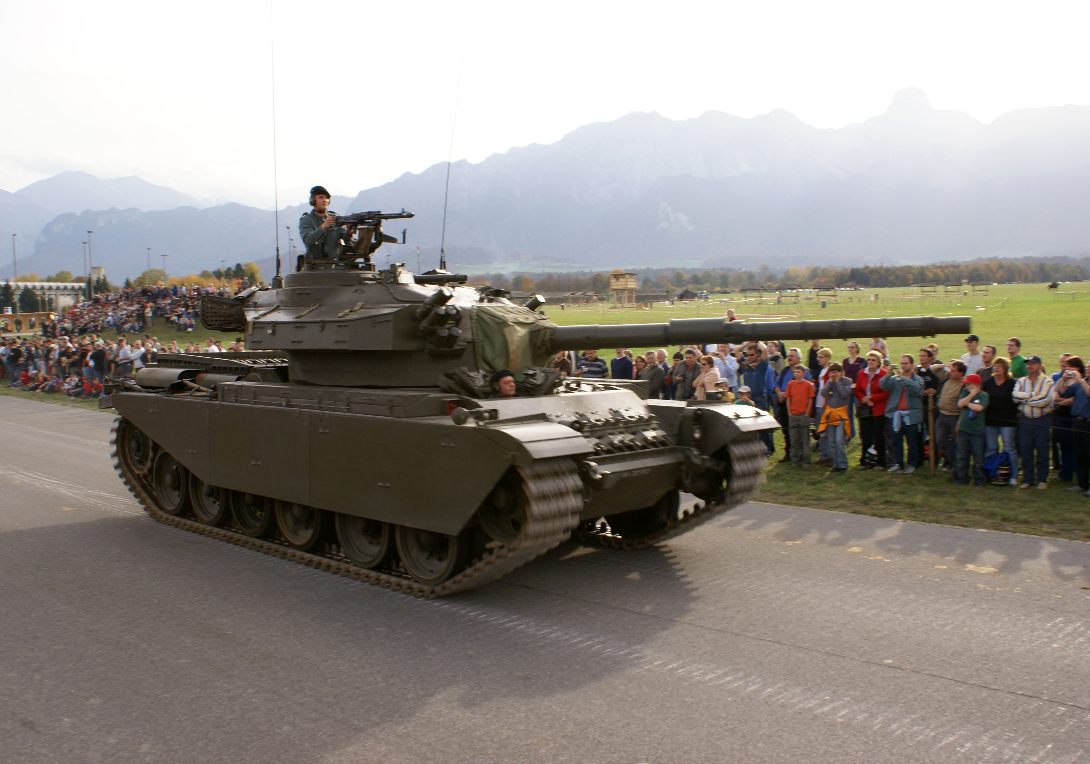 Swiss Army. Centurion MK III main battle tank. Participating in the "Steel Parade" of the 2006 Army Days, Thun.